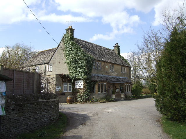 The Vines pub, Black Bourton, Oxfordshire